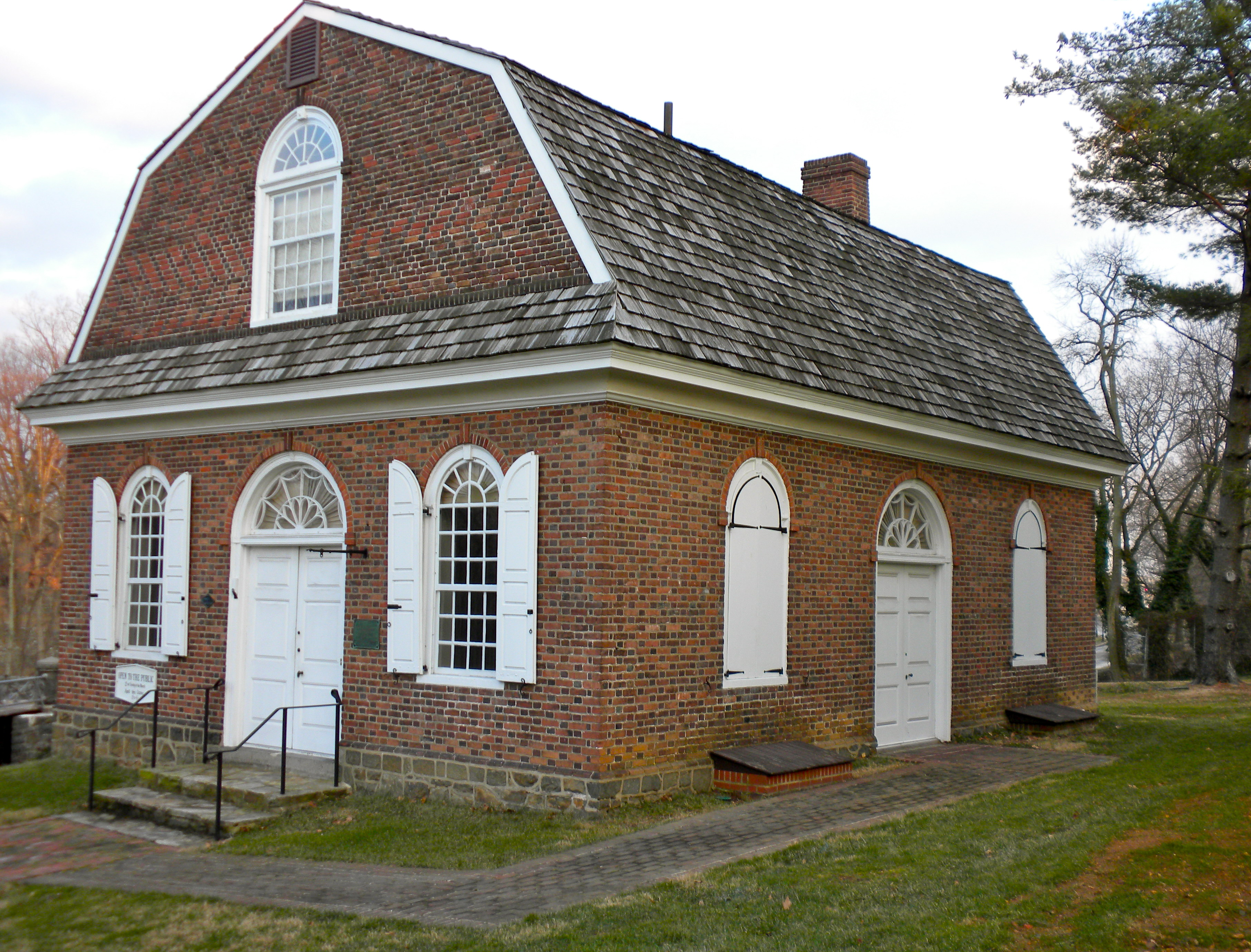 1st Presbyterian Church in Wilmington, Delaware. Built in the 18th-century before American Revolution. Has been moved from downtown location to next to Brandywine Park. West St. on Brandywine Park Dr. On the NRHP.